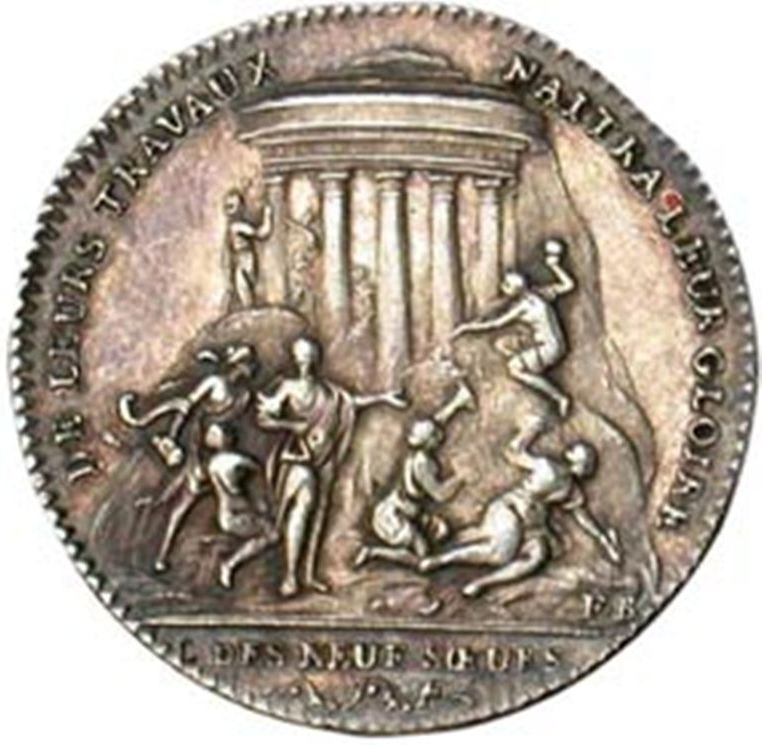 A token from the "Nine Sisters" Masonic lodge. The front side shows a portrait of Benjamin Franklin.